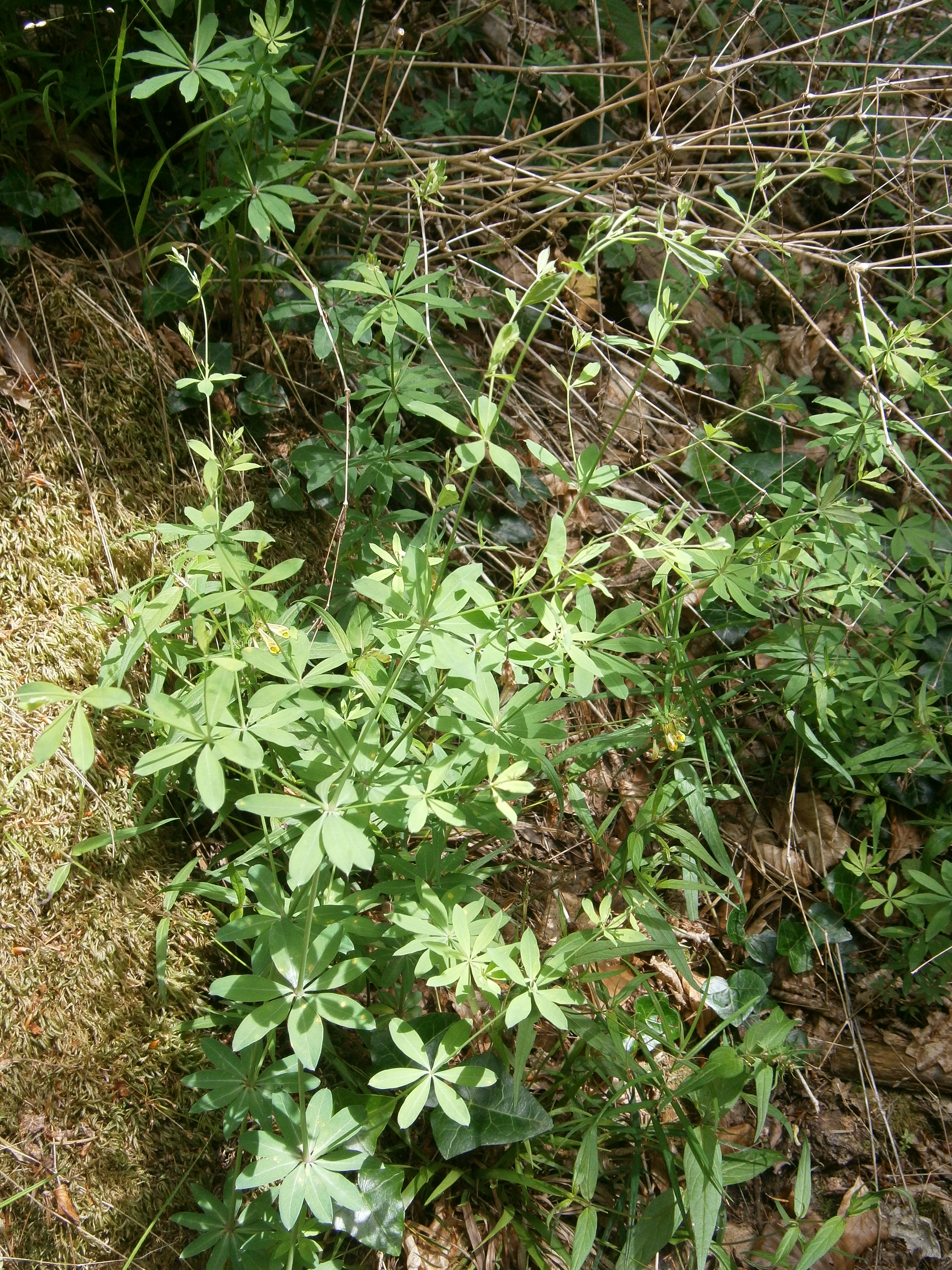 Galium sylvaticum